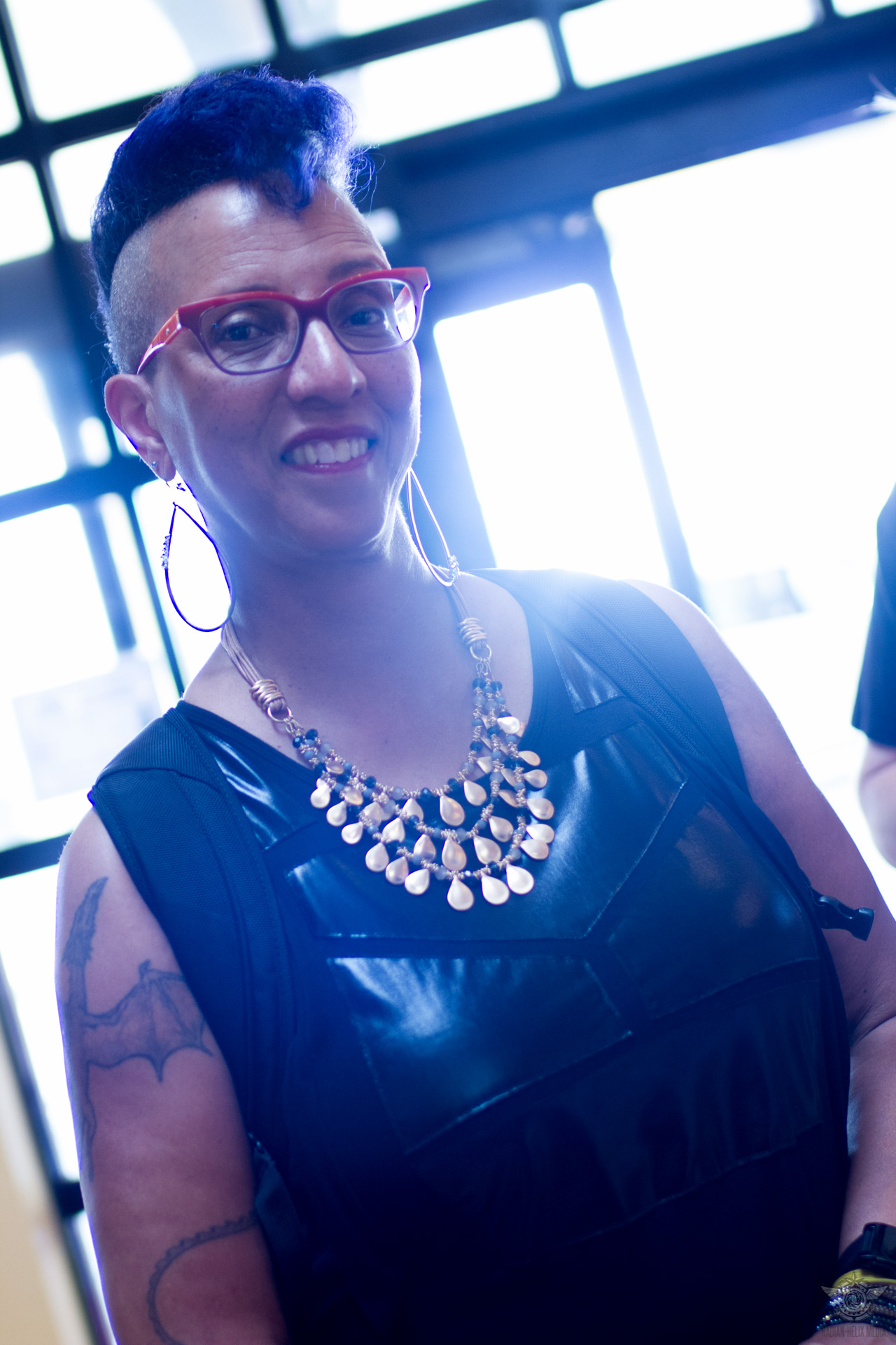 A photo of Linda D. Addison shot by Brandan Lee (Thaiauxn, Radian-Helix Media,llc) During TusCon 41 Science Fiction and horror Convention.